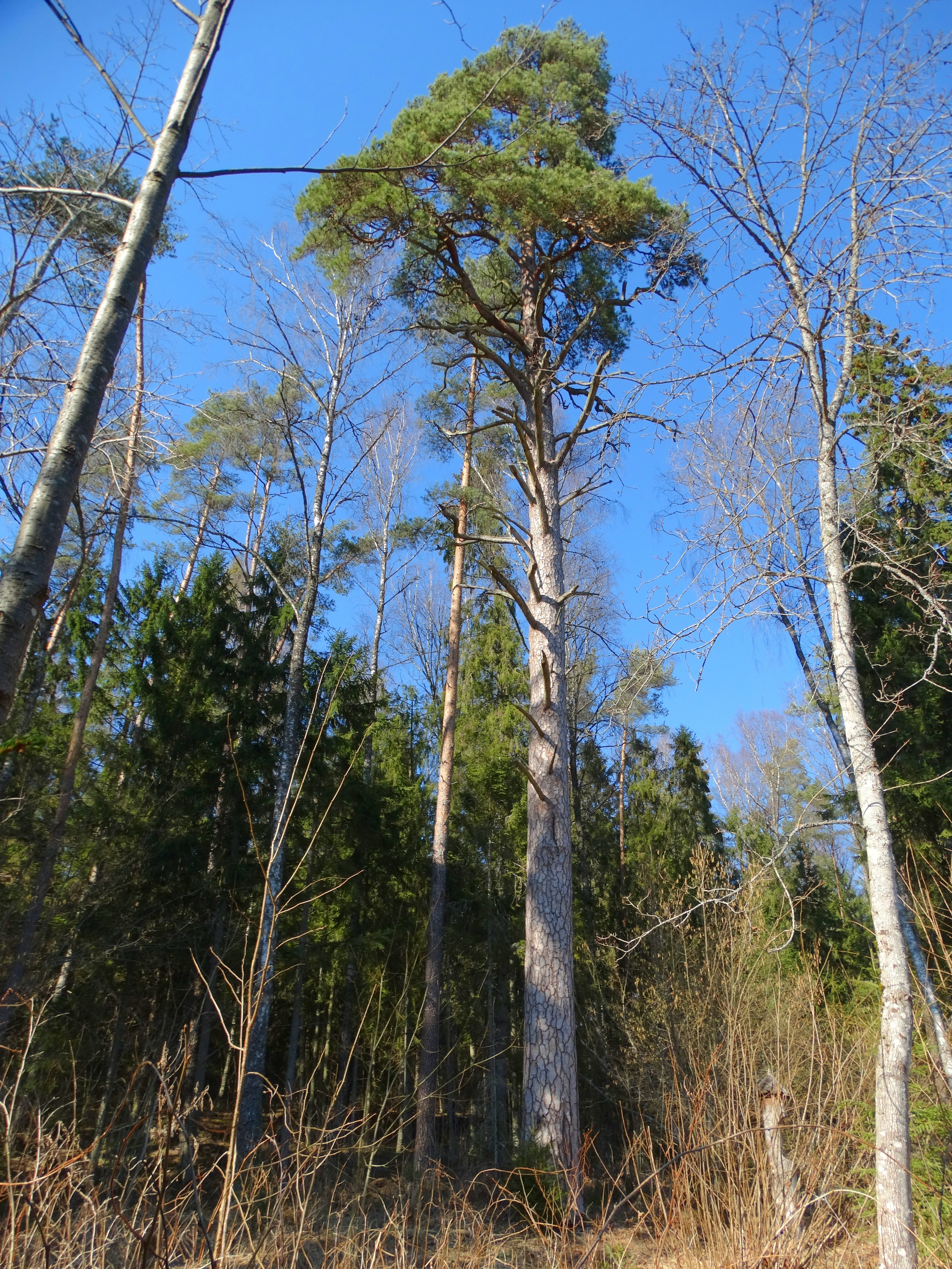 Pine tree, Naisiai (Bubiai), Šiauliai district, Lithuania